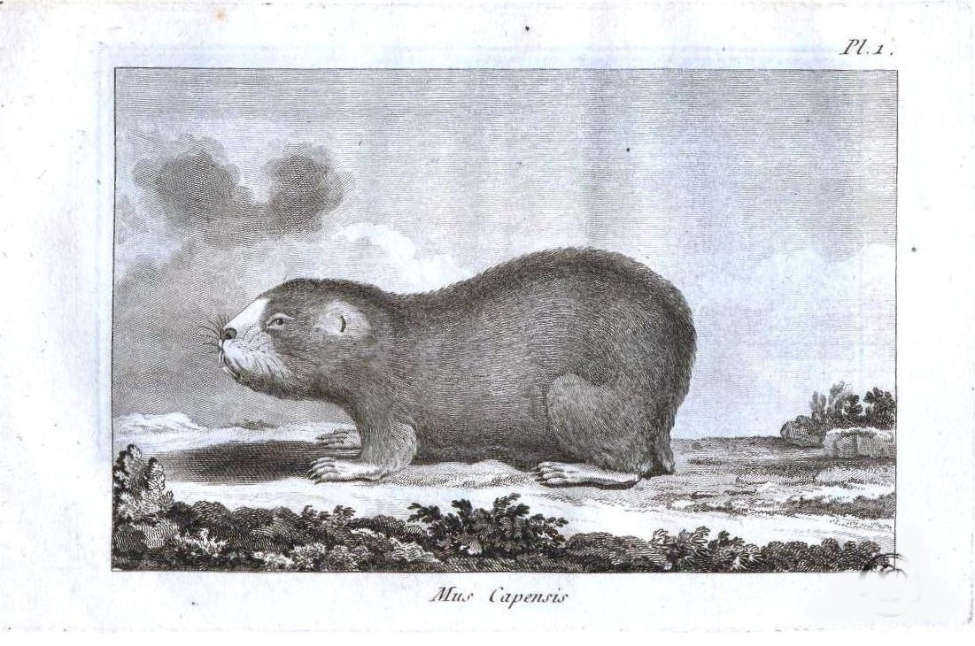 Cape mole rat Georychus capensis at Voyages de C.P. Thunberg, au Japon